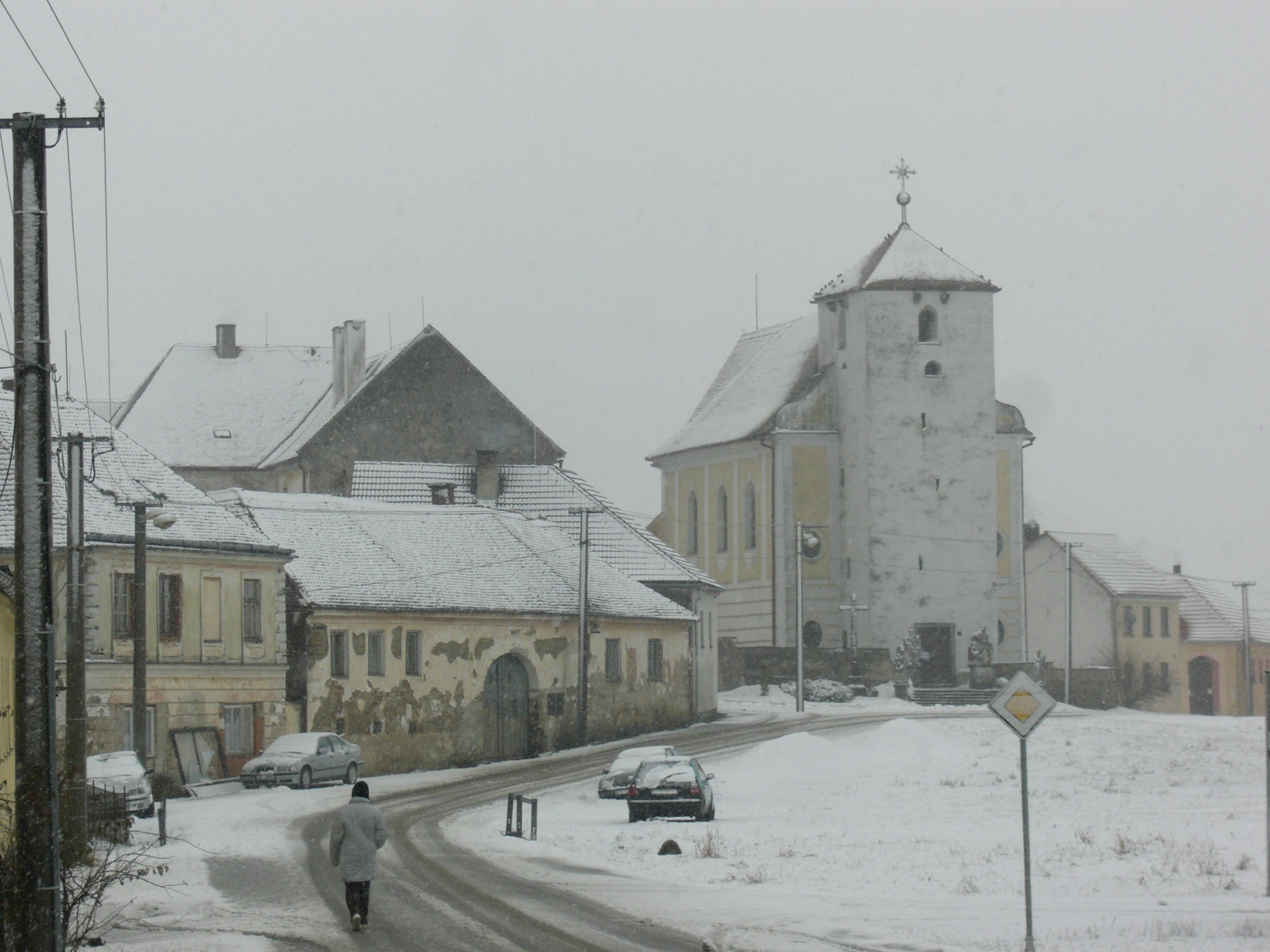 Rančířov village - part of Dešná village, Jindřichův Hradec district, Czech Republic